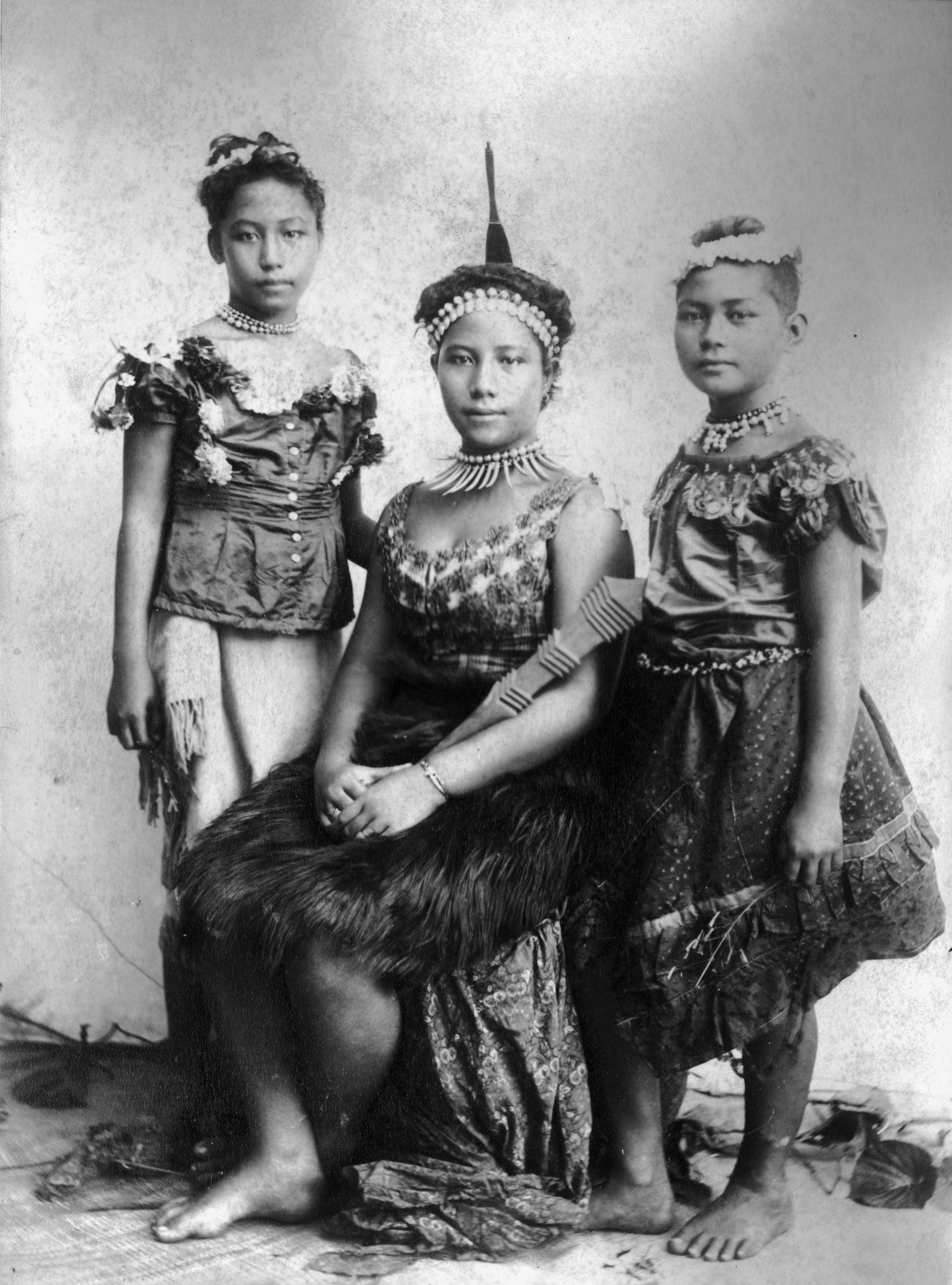 Portrait of three Samoan girls, 1890s. Reference Number: PA7-01-14. Studio photograph of three Samoan girls taken by Thomas Andrew in the 1890s.